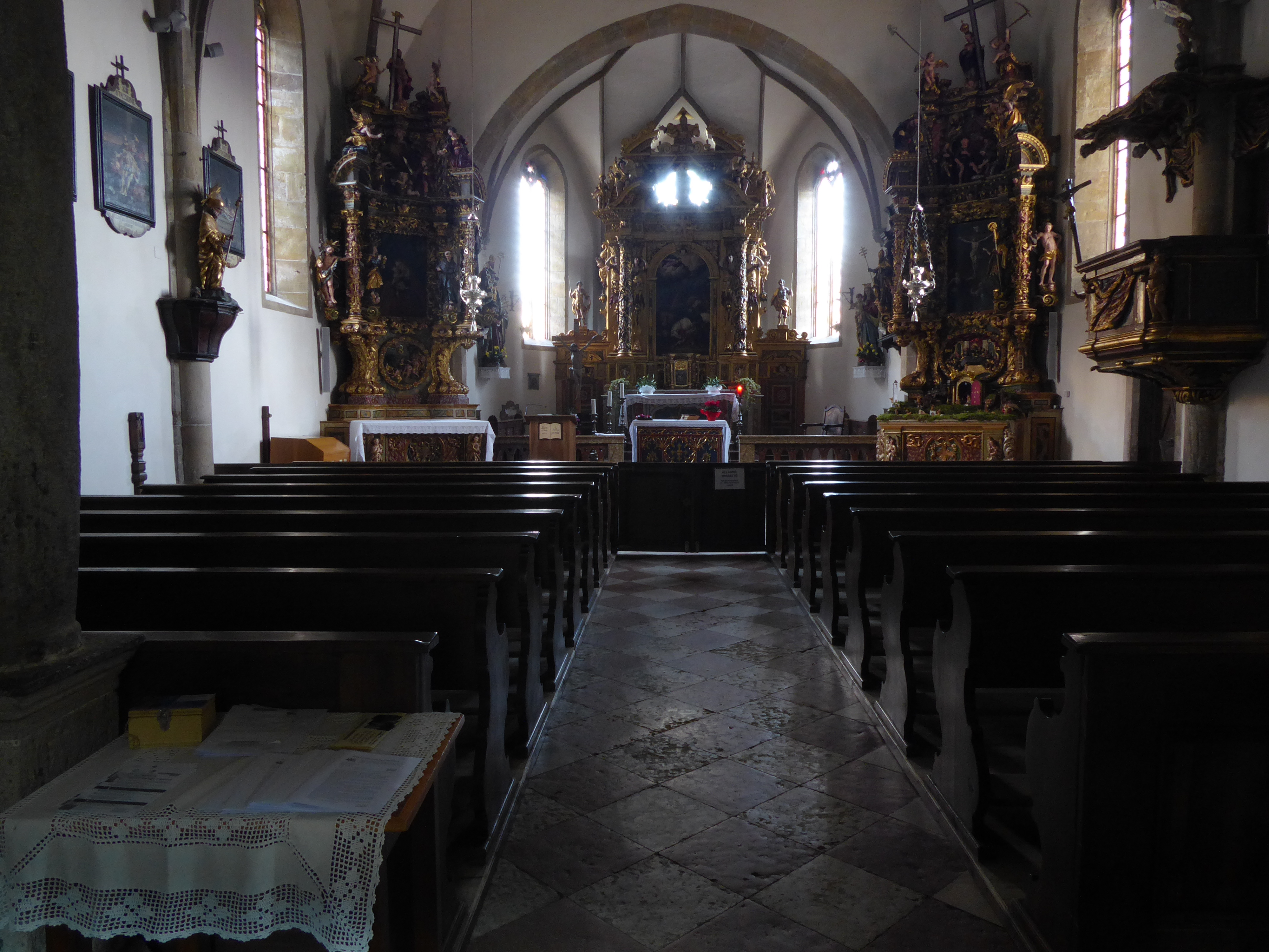 Marcena, church of the Conversion of St Paul - Interior